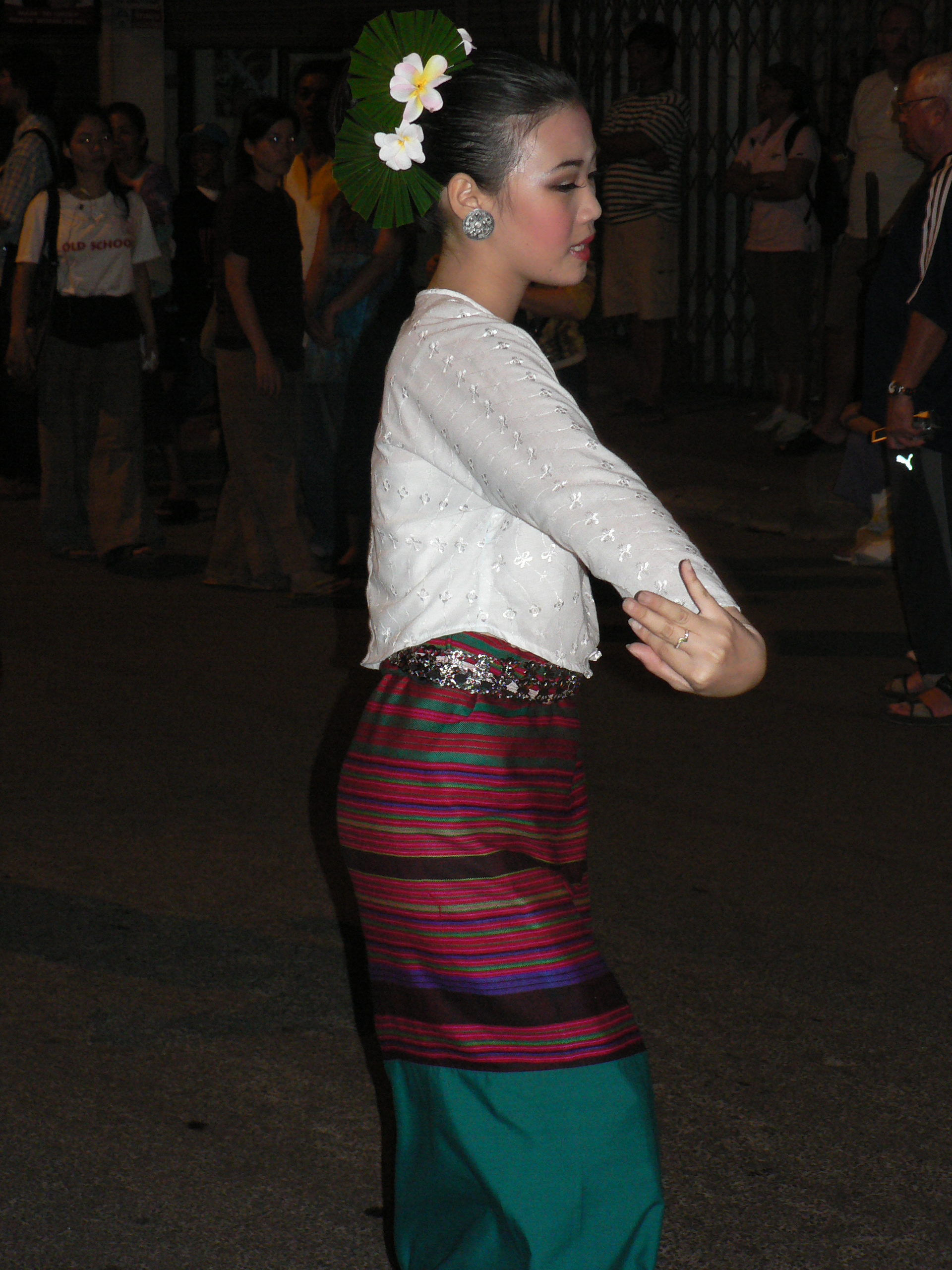 Loi Krathong, Chiang Mai 2005